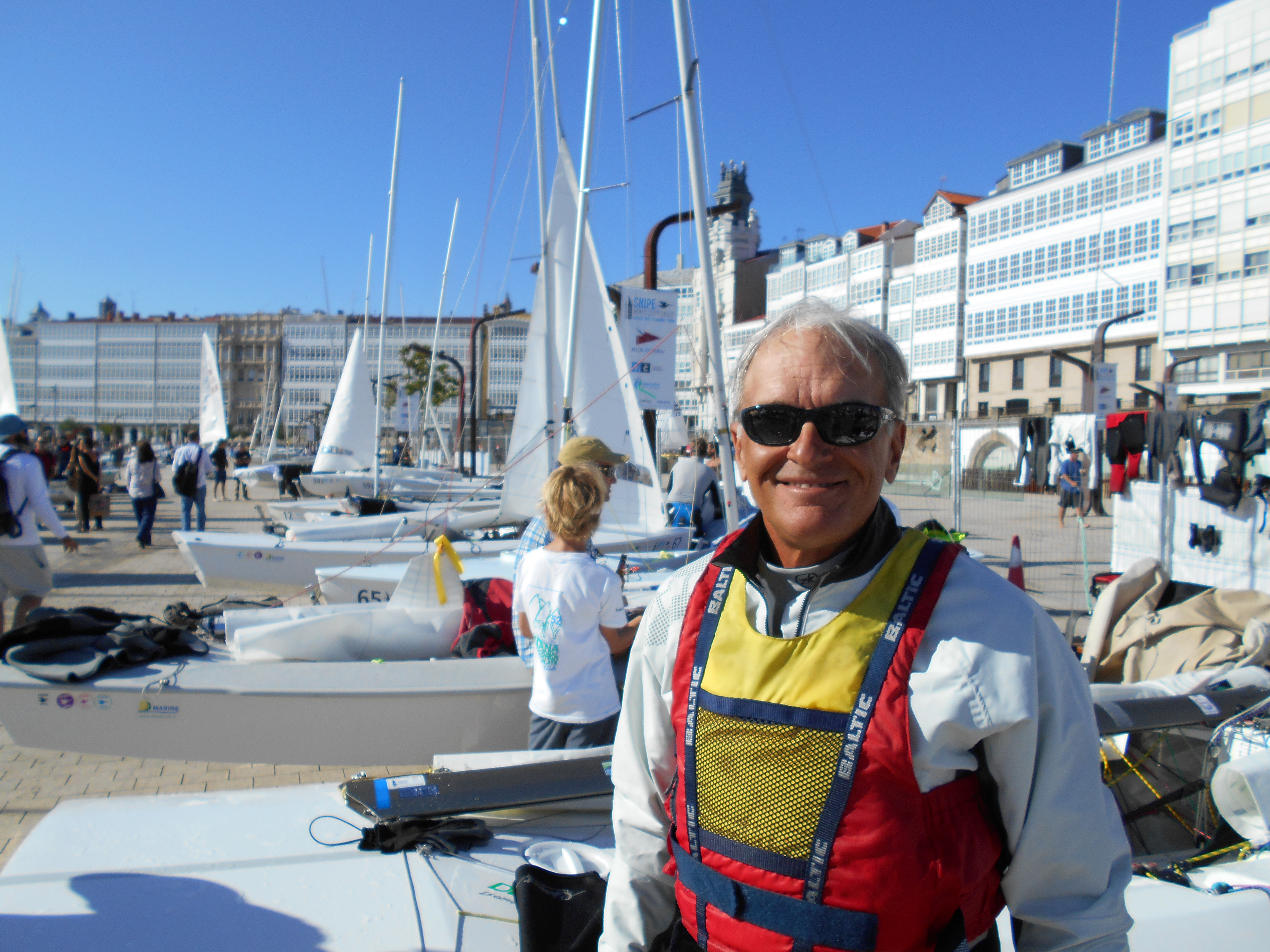 Augie Díaz at La Coruña (Spain) for the Snipe Worlds in 2017